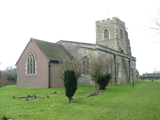 St Margaret's parish church, Streatley, Bedfordshire, seen from the northeast